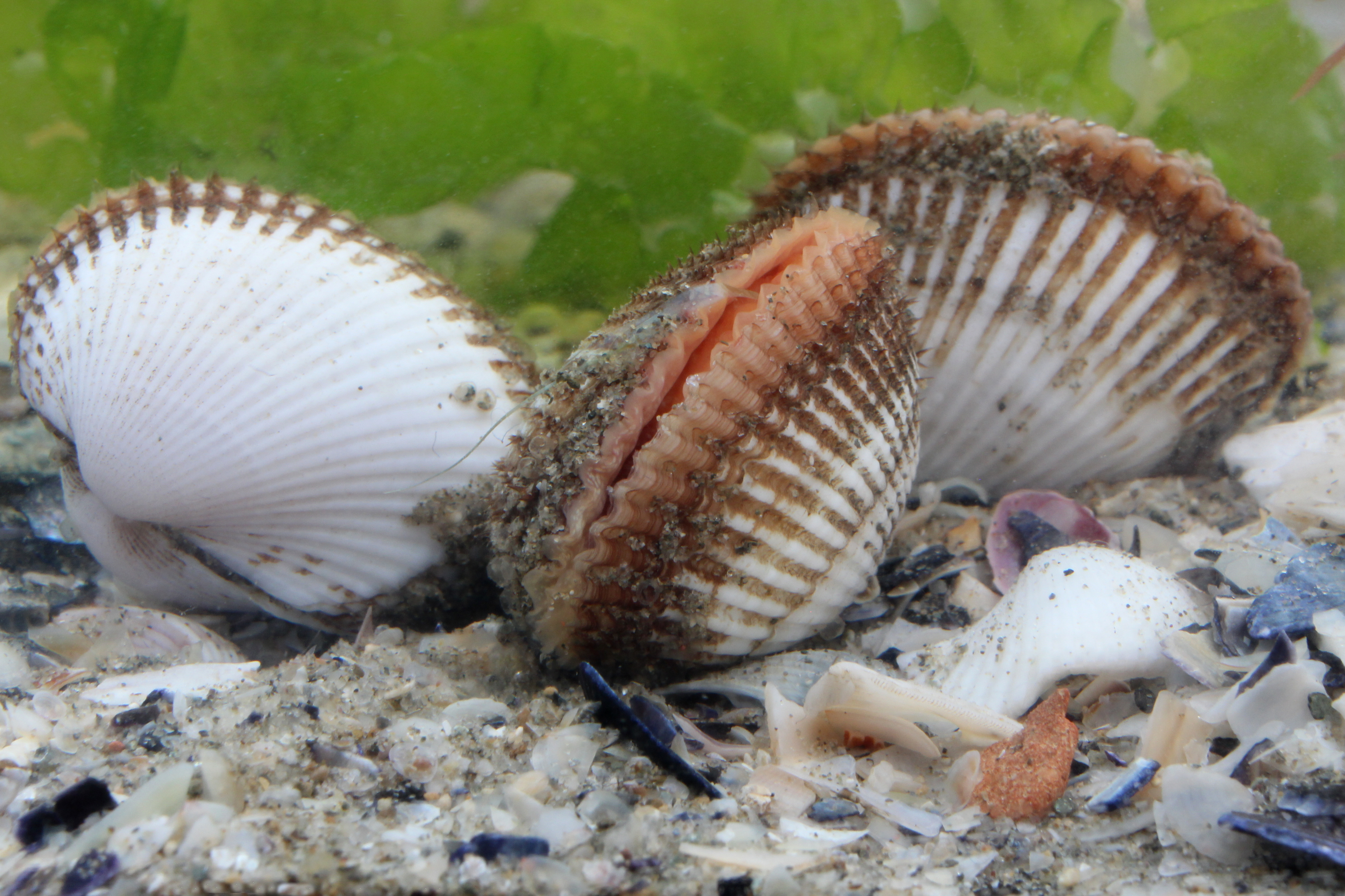 Anadara kagoshimensis, juvenile, Location: Italy, Porto Garibaldi